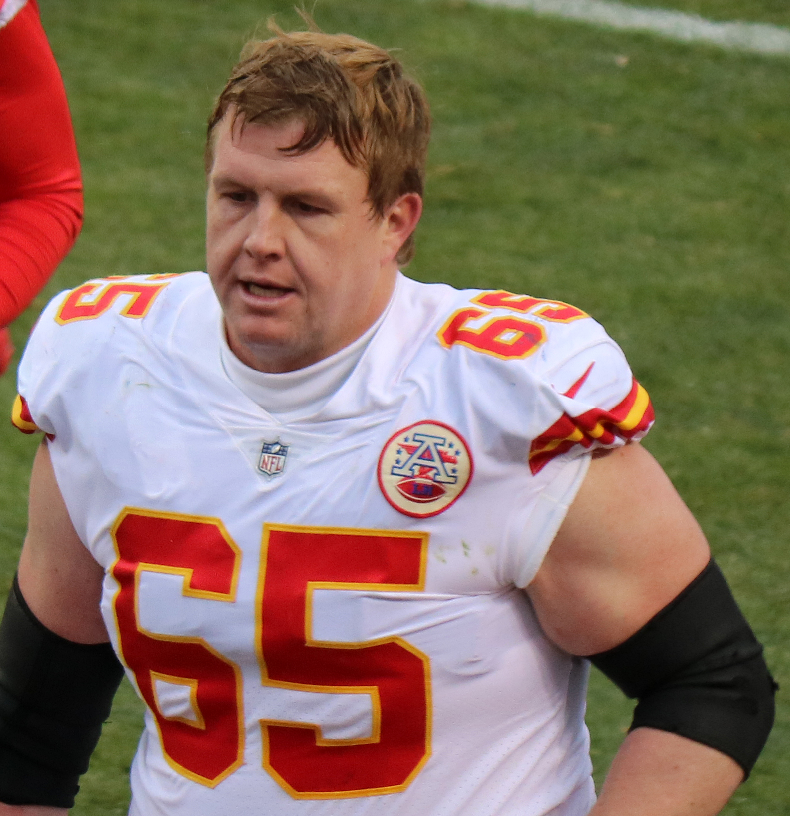 Jordan Devey, a National Football League player.